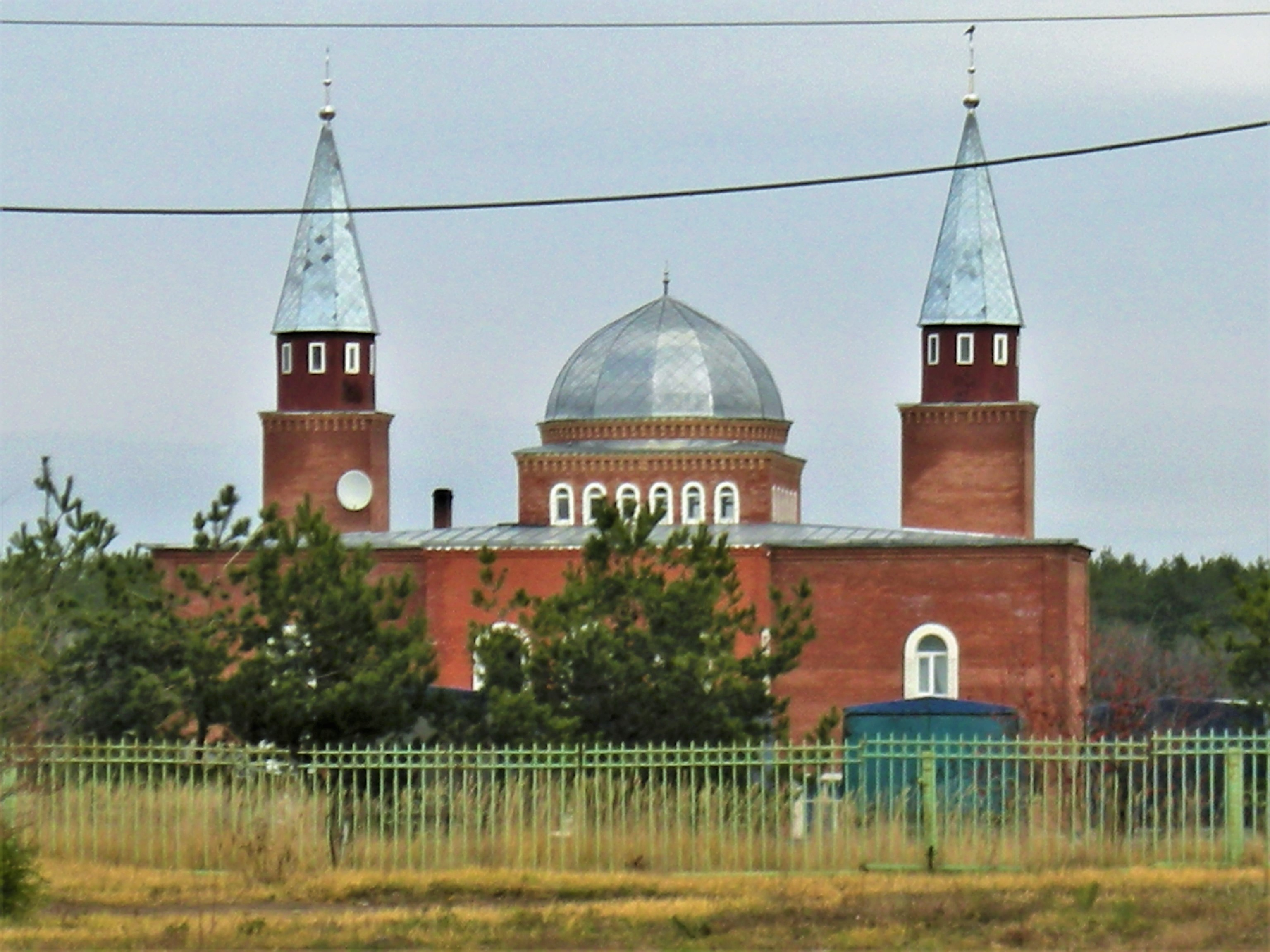 The mosque in the new town